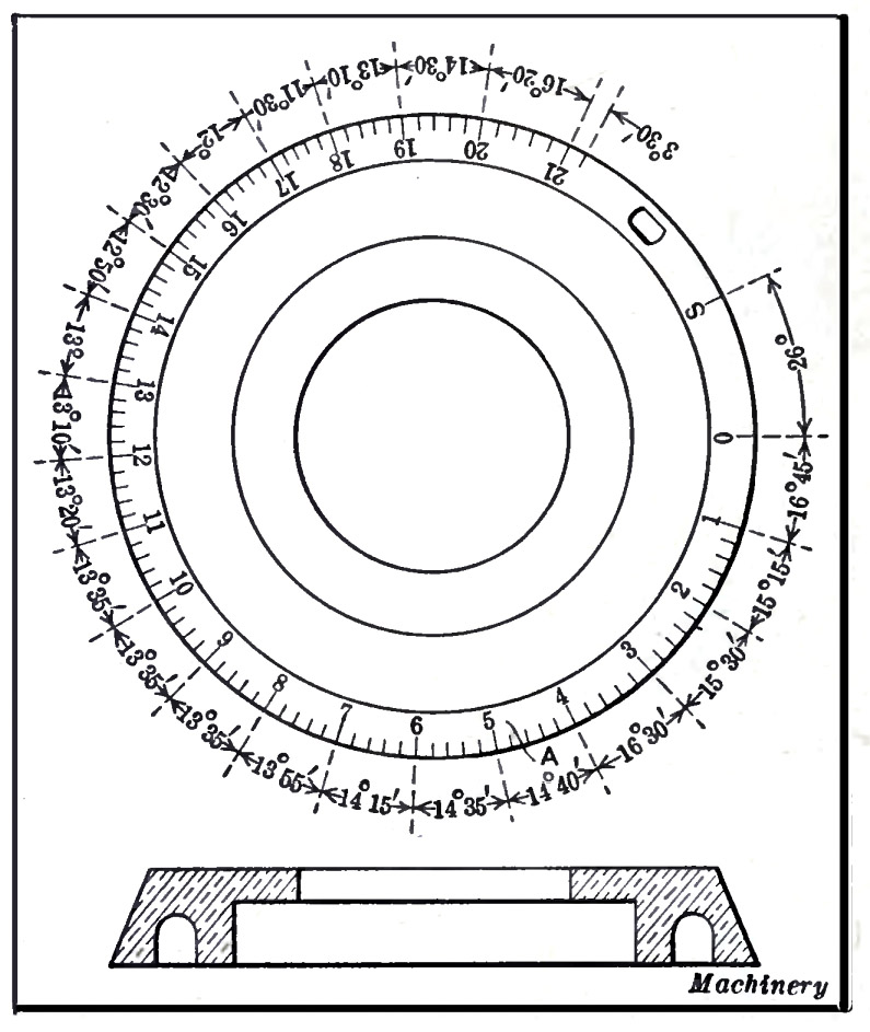 Diagram showing how timing ring on the american combination timing and percussion fuse is laid out